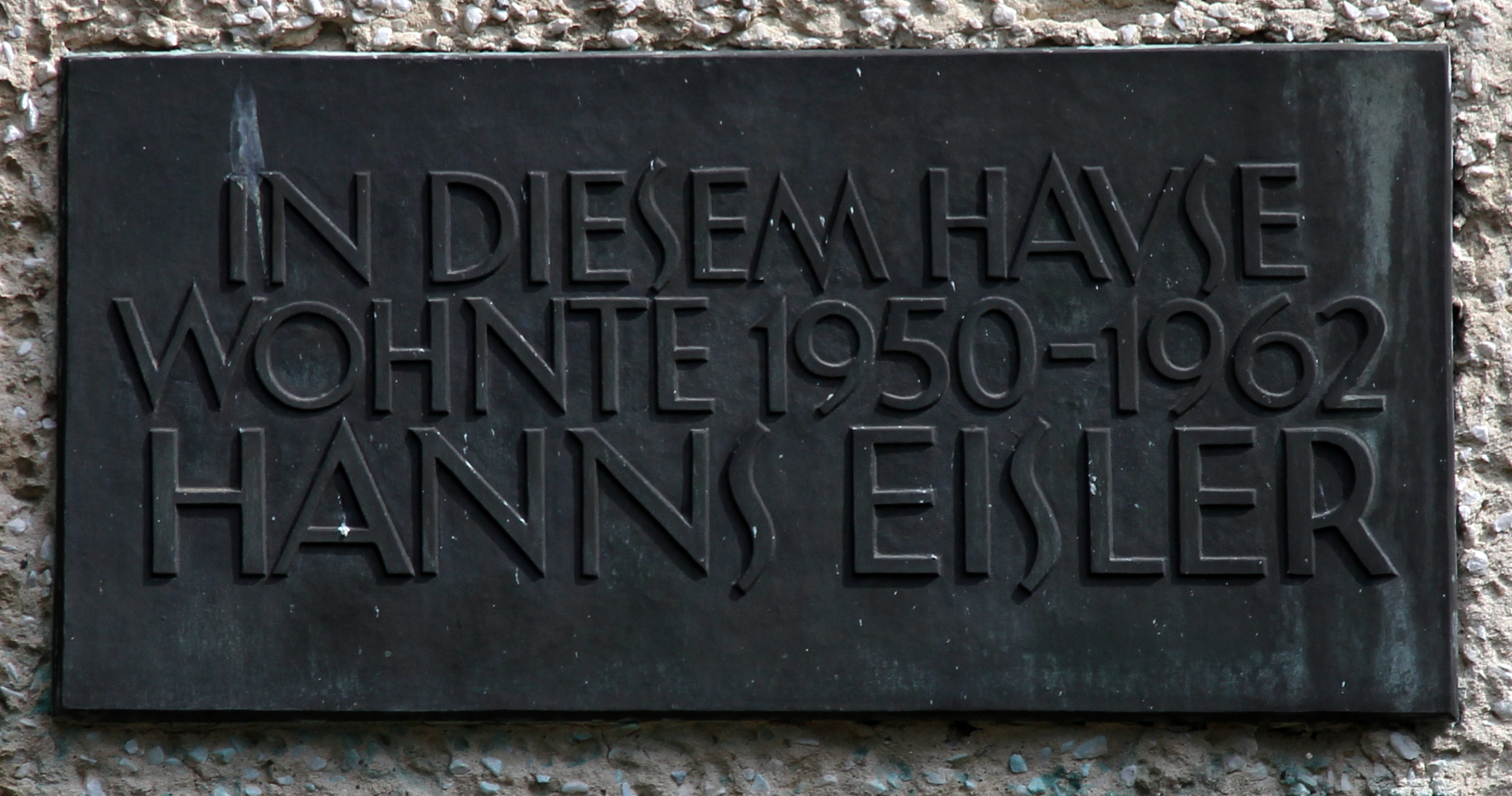 Memorial plaque, Hanns Eisler, Pfeilstraße 9, Berlin-Niederschönhausen, Germany